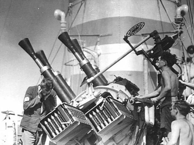 40 mm (2pdr) Mk VIII pompoms on Mk VII mounting aboard HMAS Nizam (G38)